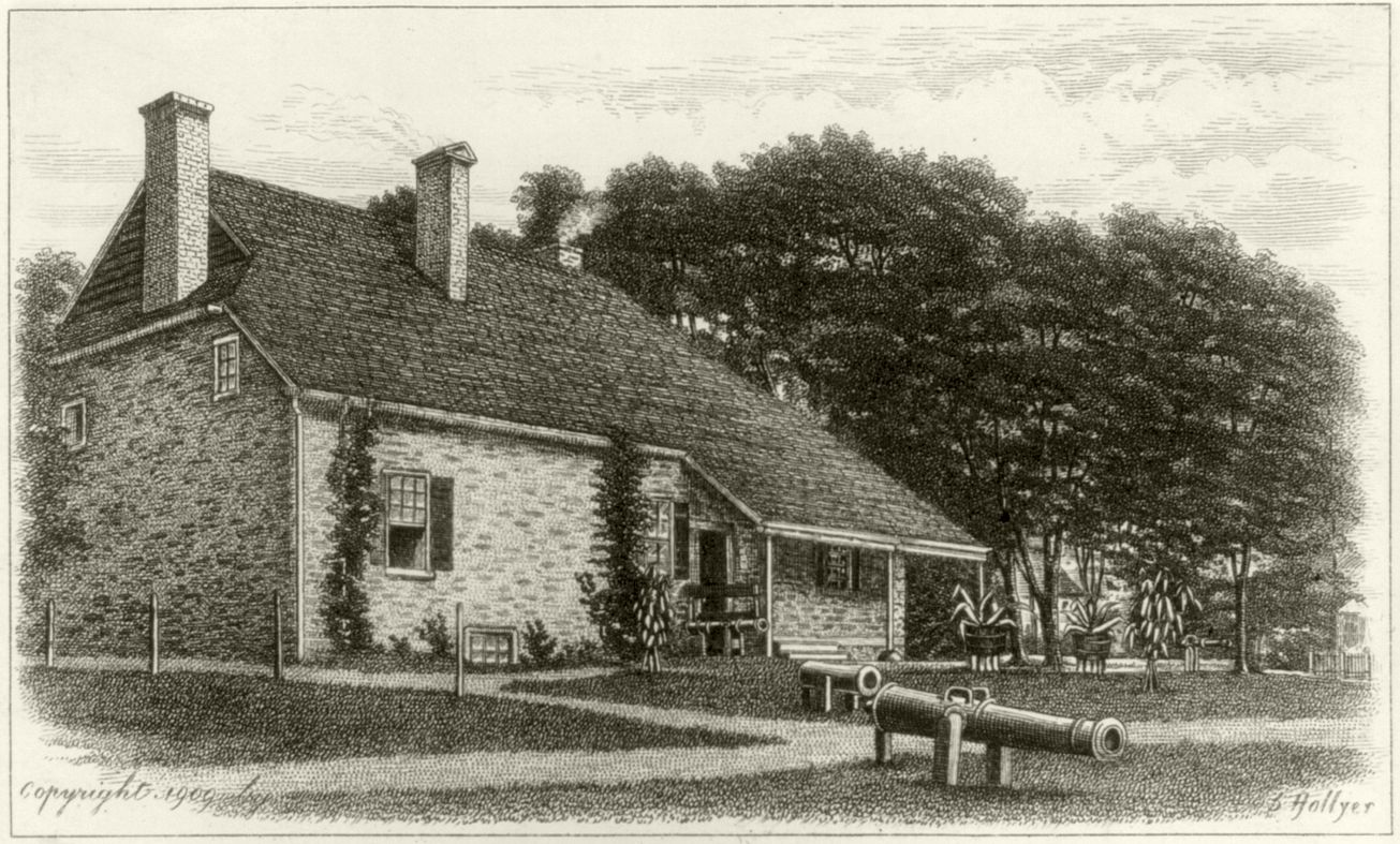 Engraving of Washington's headquarters, Newburgh, N.Y., 1777